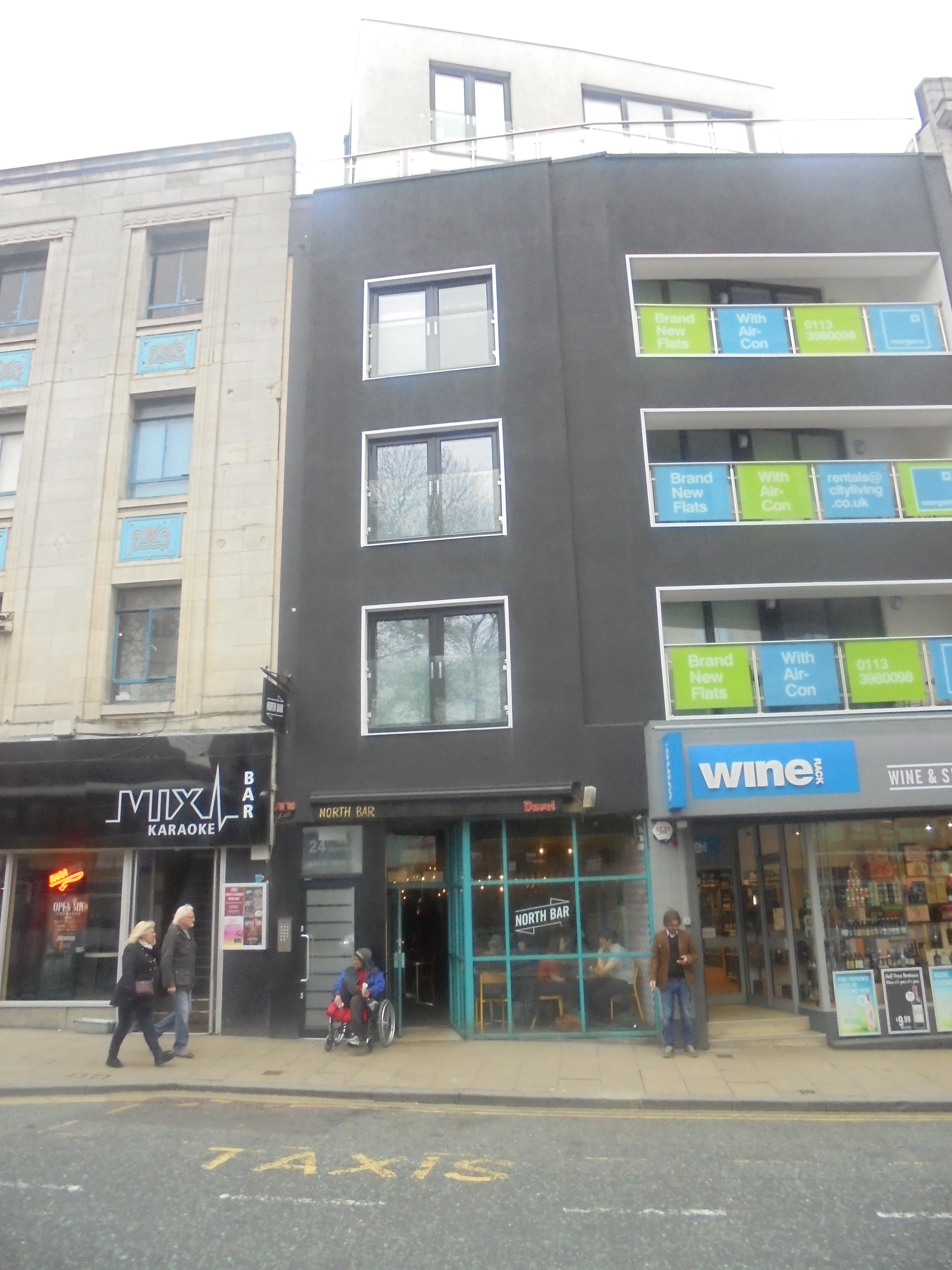 North Bar, New Briggate, Leeds, West Yorkshire. Taken on the evening of Tuesday the 1st of May 2018.